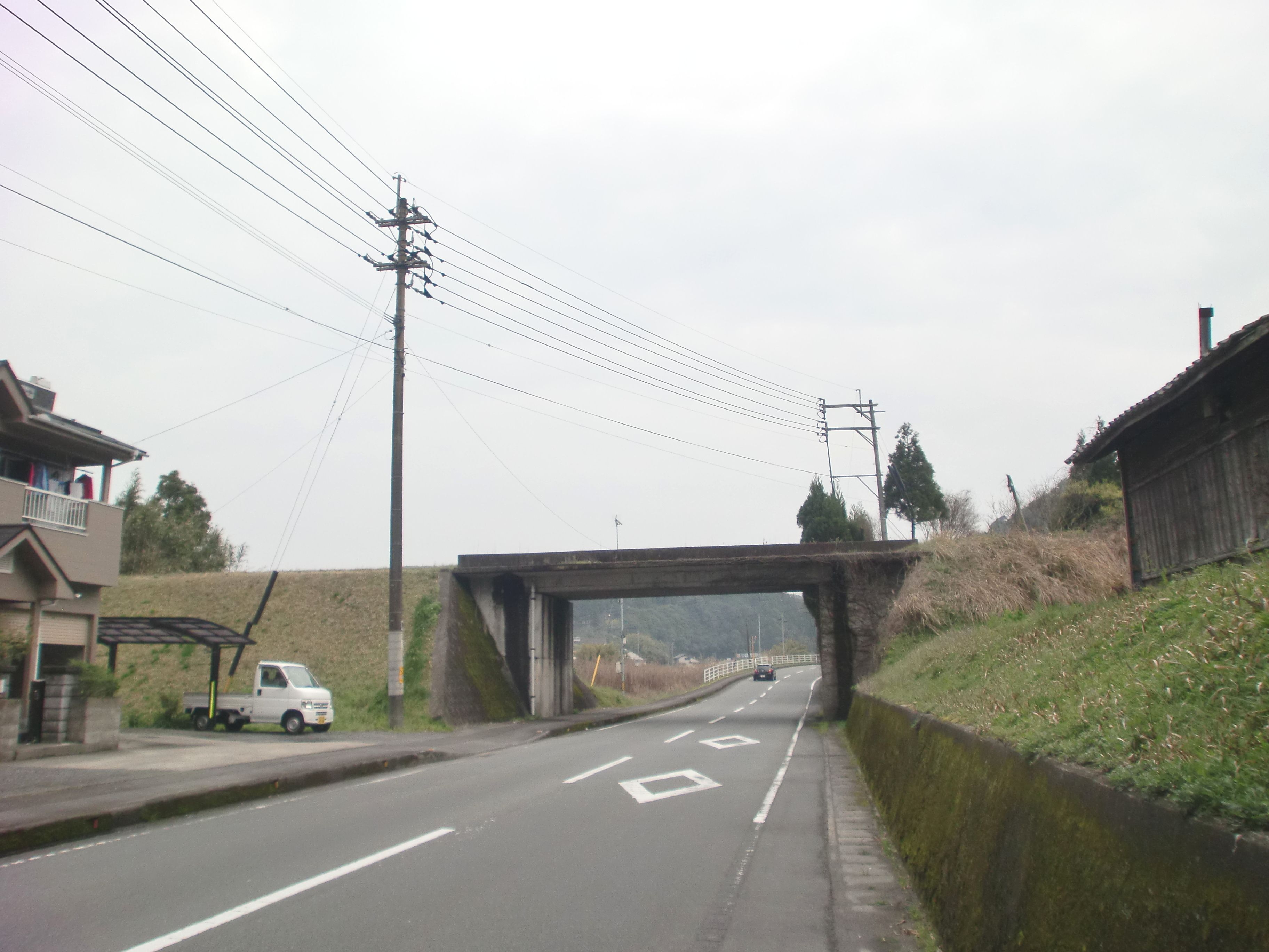 The Kagoshima Prefectural Road Route 24 in Hioki City, view towards Kagoshima City. The Kagoshima Kotsu Makurazaki Line (now defunct) crosses over the road